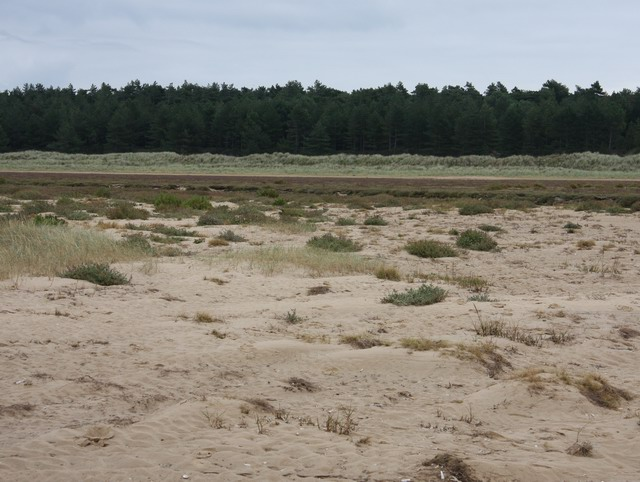 Saltmarsh at Holkham Bay The northern part of the saltmarsh is more sandy, with little deposition of mud.